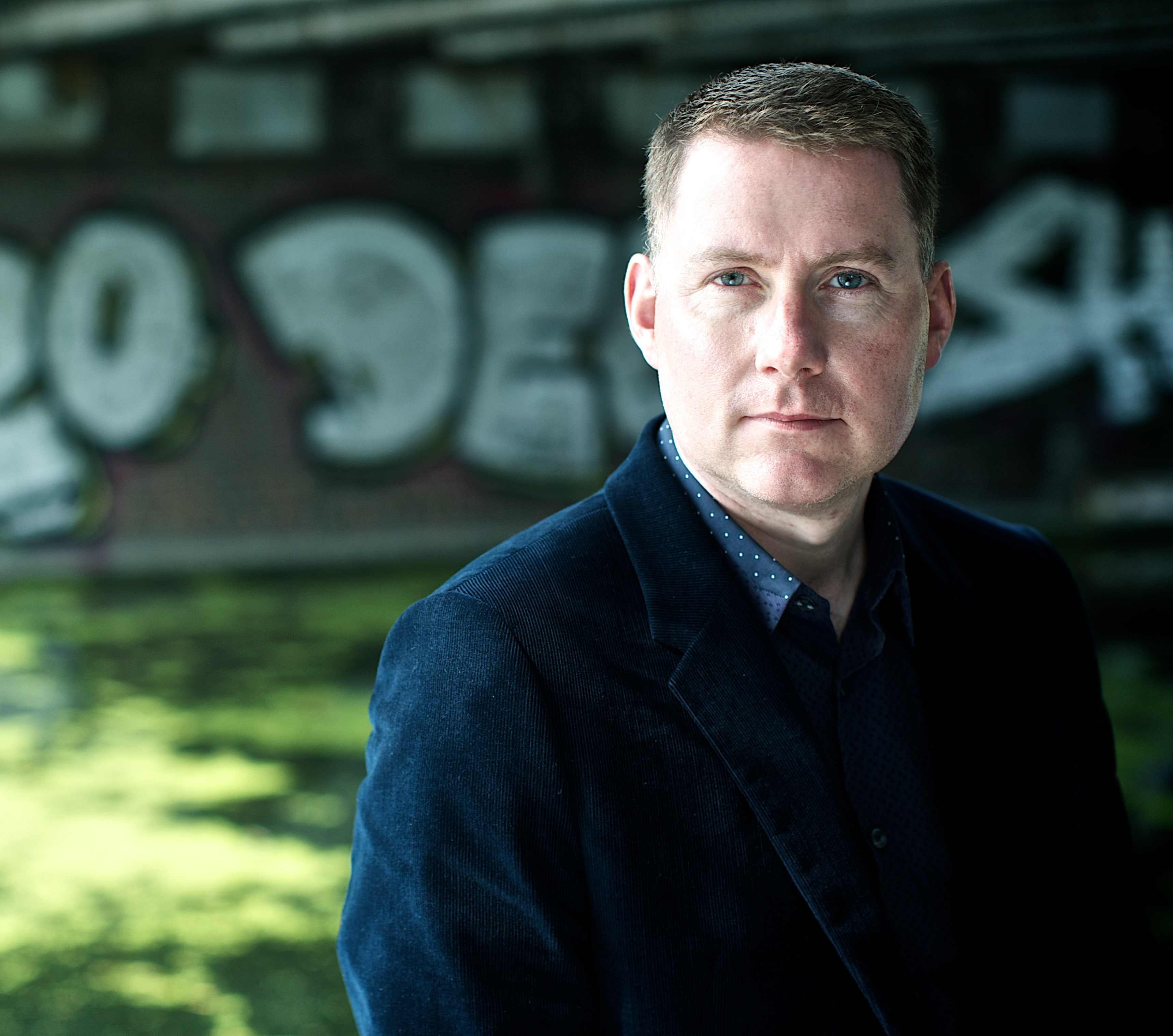 Matt A